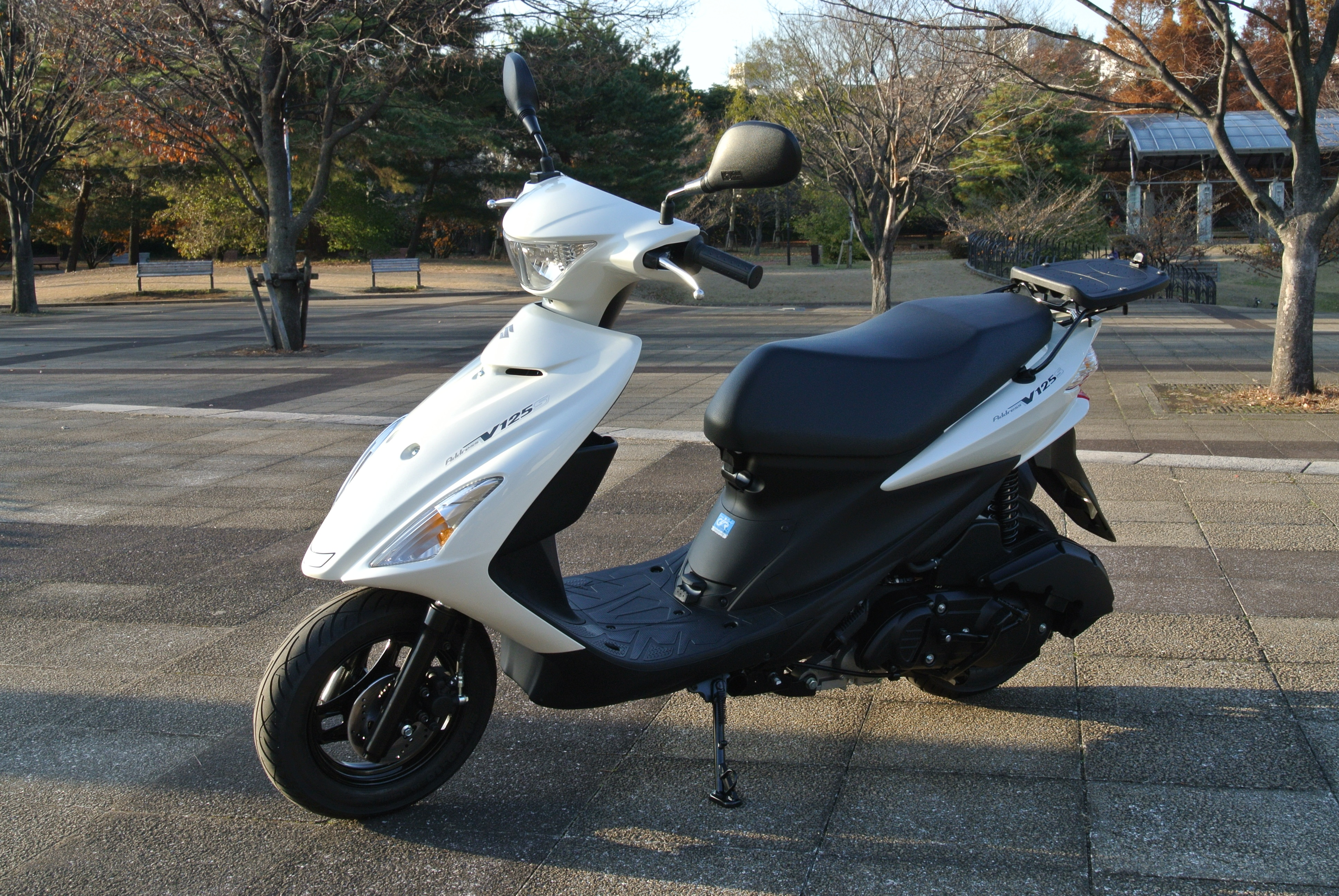 Suzuki Address V125S